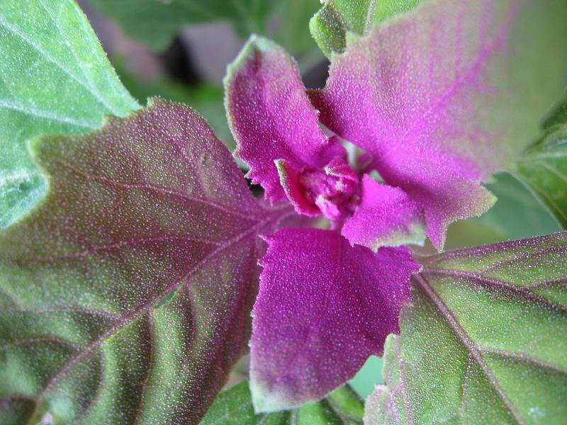 Close-up of Magenta Spreen. The magenta-colored parts of the leaves are like a fine powder that comes off on your hands.